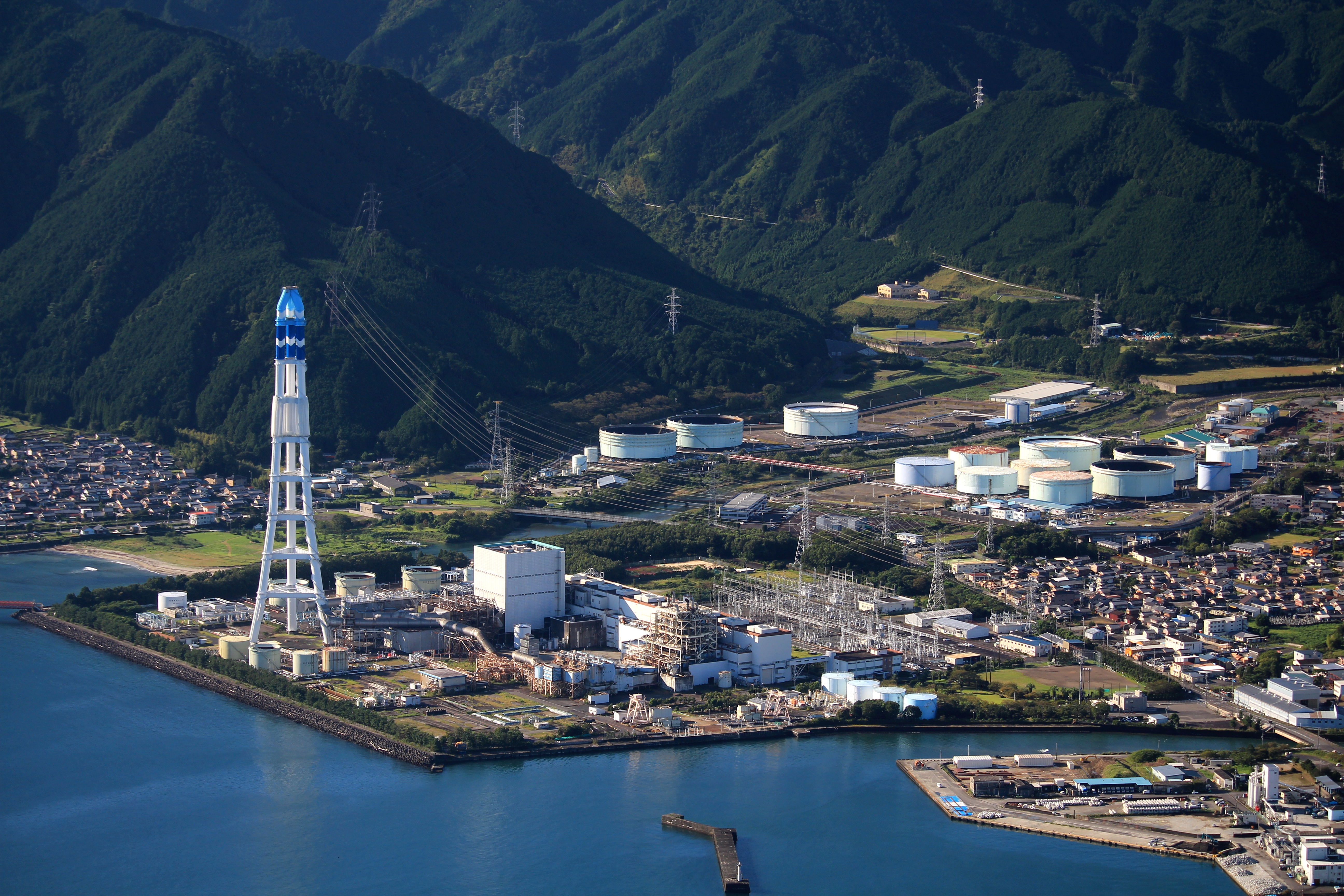 Owase Mita Thermal Power Station seen from Mount Tengura, in Owase, Mie prefecture, Japan.